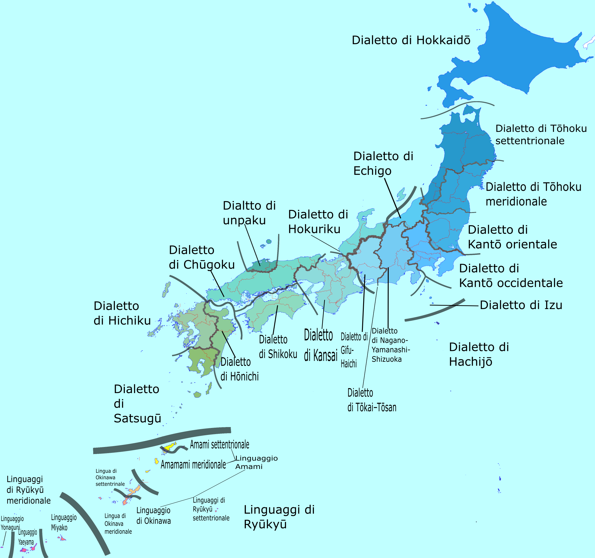 This image was improved or created by the Wikigraphists of the Graphic Lab (it). You can propose images to clean up, improve, create or translate as well.